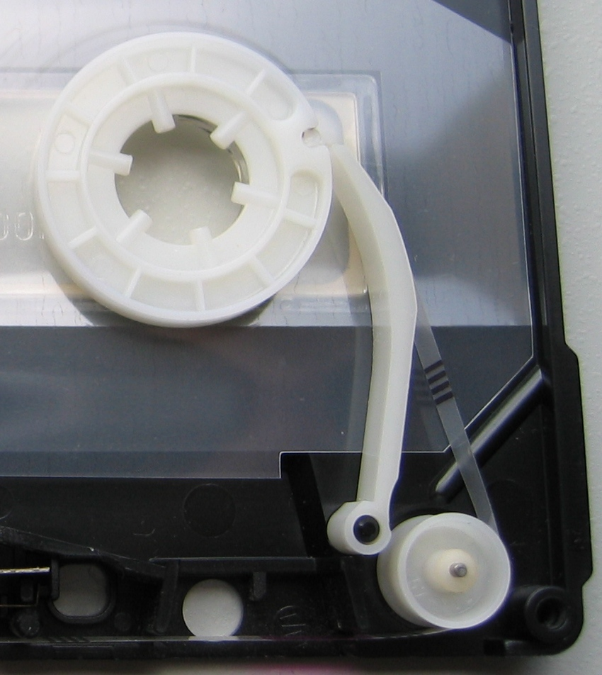 Compact Cassette BASF SM Security Mechanism guided tape